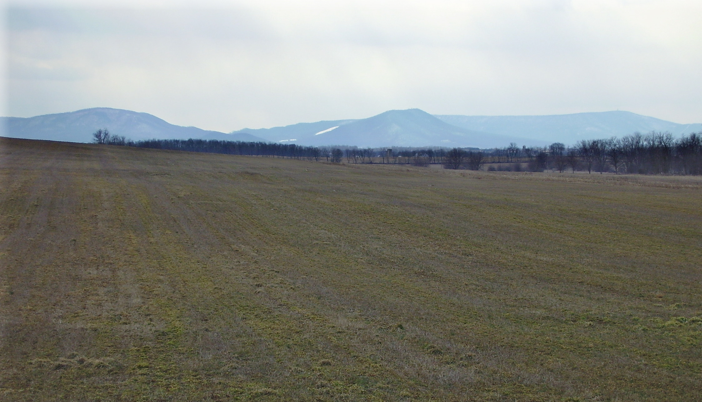 Bear Pond Mountains from the north in Pennsylvania. photo by: Joe Calzarette